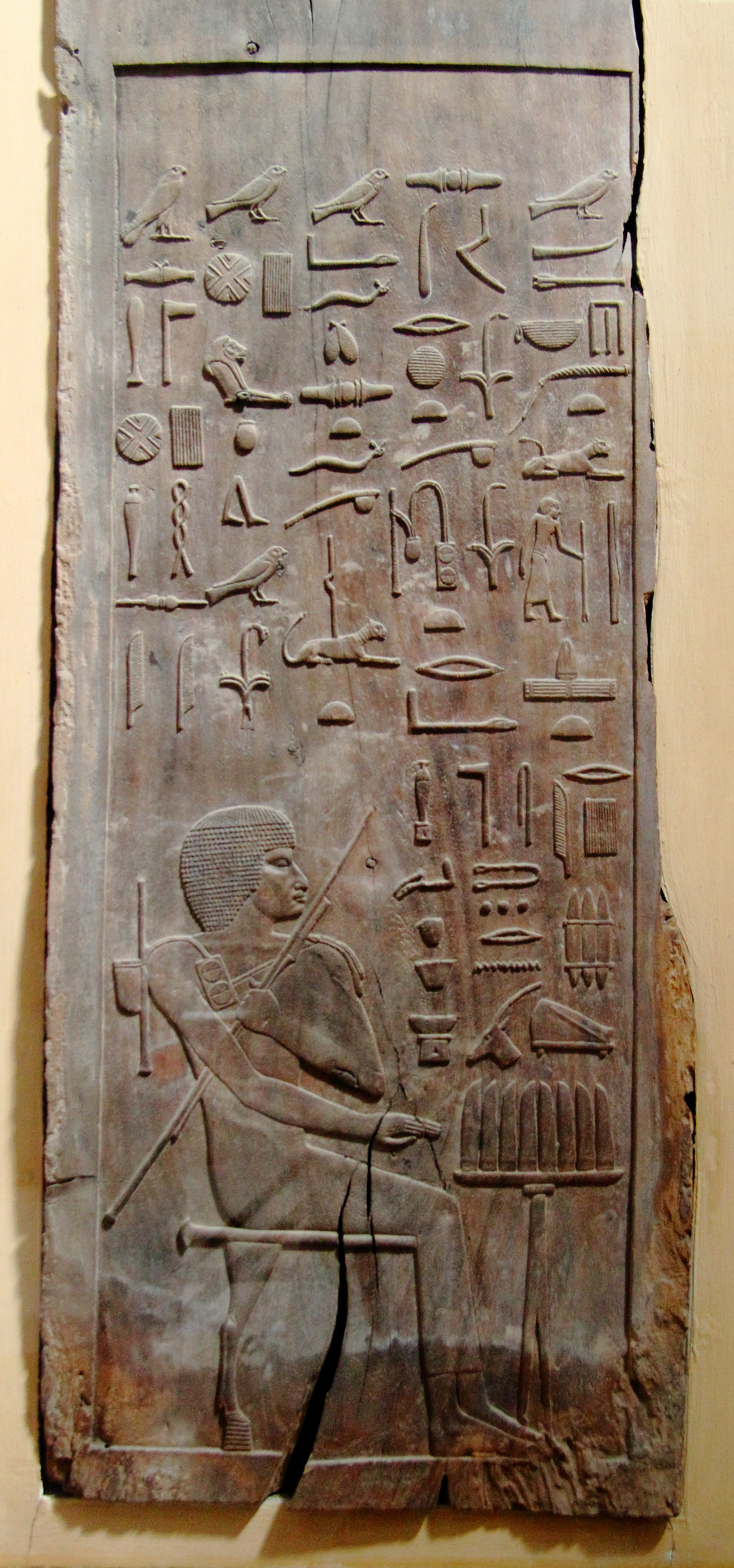 Egyptian Museum: wood panel from the tomb of Hesy-Ra